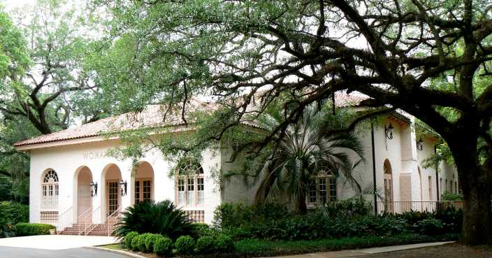 Photograph of the Woman's Club of Tallahassee (Florida), taken in 2007 by Tim Ross, who releases all rights.